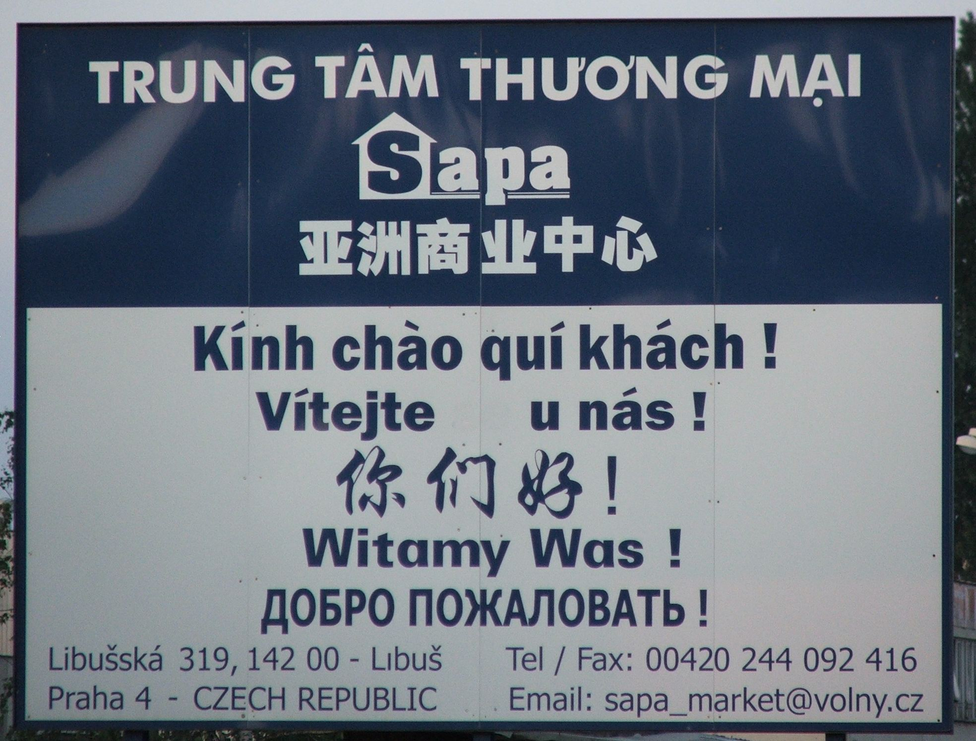 Multilingual welcome sign near East Asian community center and market at Písnice, Prague, Czechia